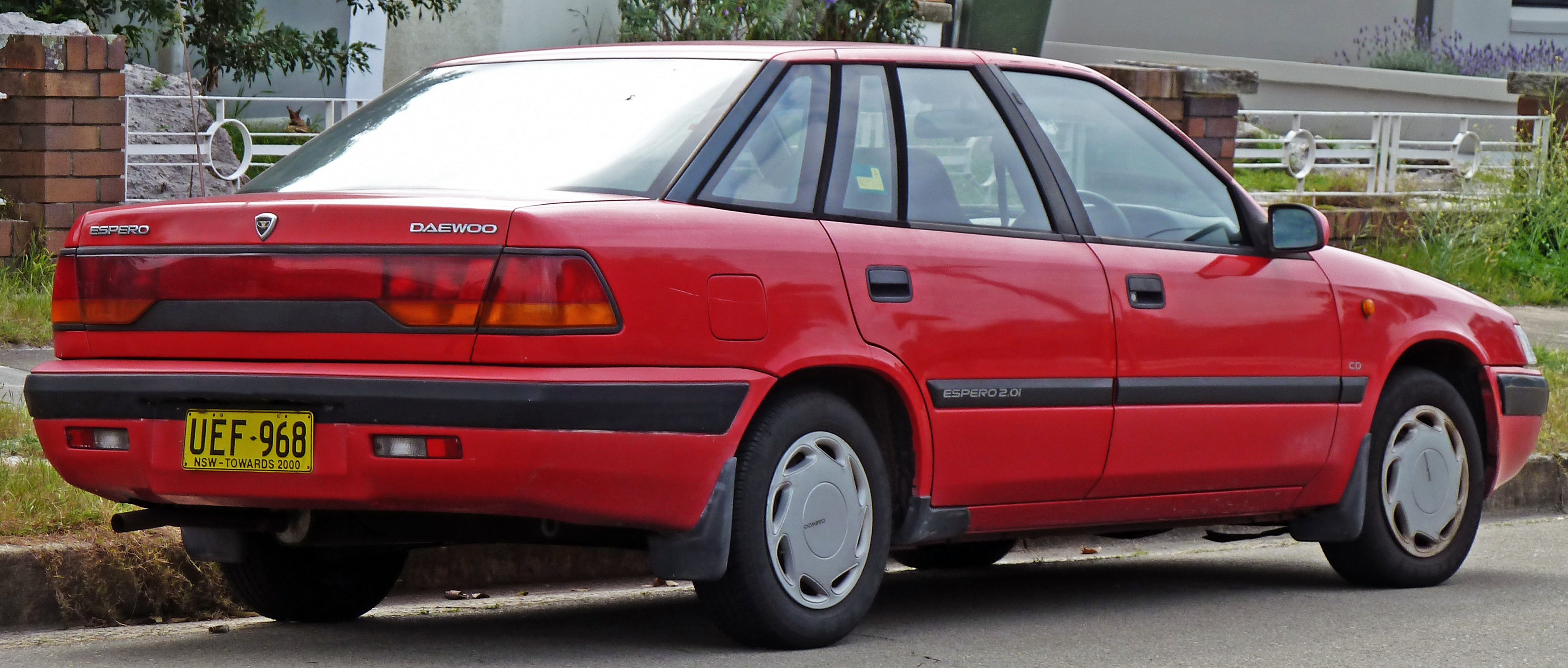 1996 Daewoo Espero CD sedan. Photographed in Sandringham, New South Wales, Australia.